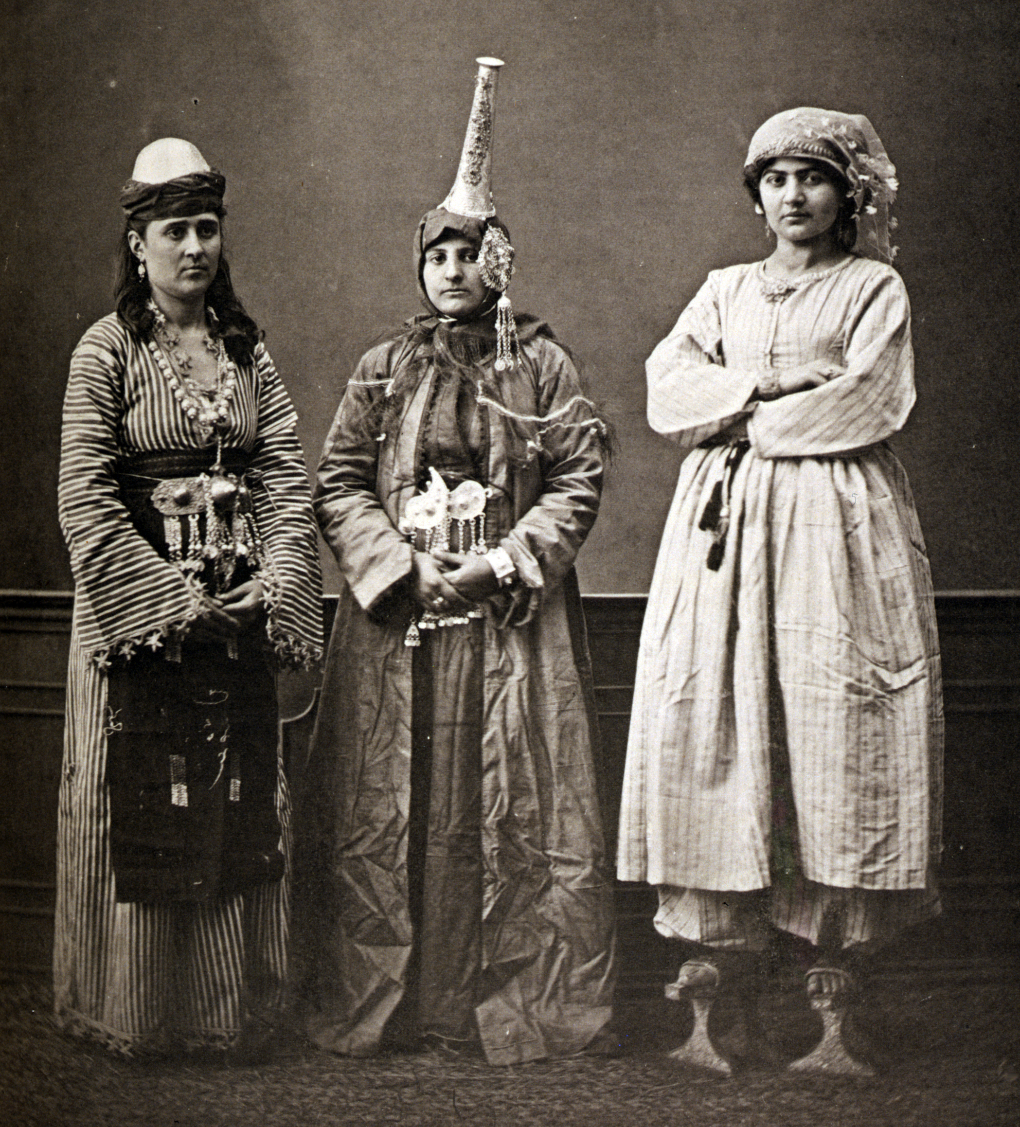 Les Costumes populaires de la Turquie, en 1873. A collection of photographs by the famous photographer Pascal Sebah on the occasion of the universal exposition in Viena in 1873. The album represents the costumes of the different regions, and ethnic and religious groups of the Ottoman Empire. On the left: a peasant lady of the Damascus region. Center: a Druze lady of Damascus (wearing the Tantur, a cone shaped silver base that is usually covered with a veil. The Tantur was helpful in exagerating a woman's height). On the right: a Lady from Damascus (wearing the qabqab, a wooden sandal with mother of pearl engraving used around the house and in the Turkish bath) (1): Peasant woman from the environs of Damas (Damascus); (2): Druze woman from the environs of Damas (Damascus); and (3) married woman of Damas (Damascus).